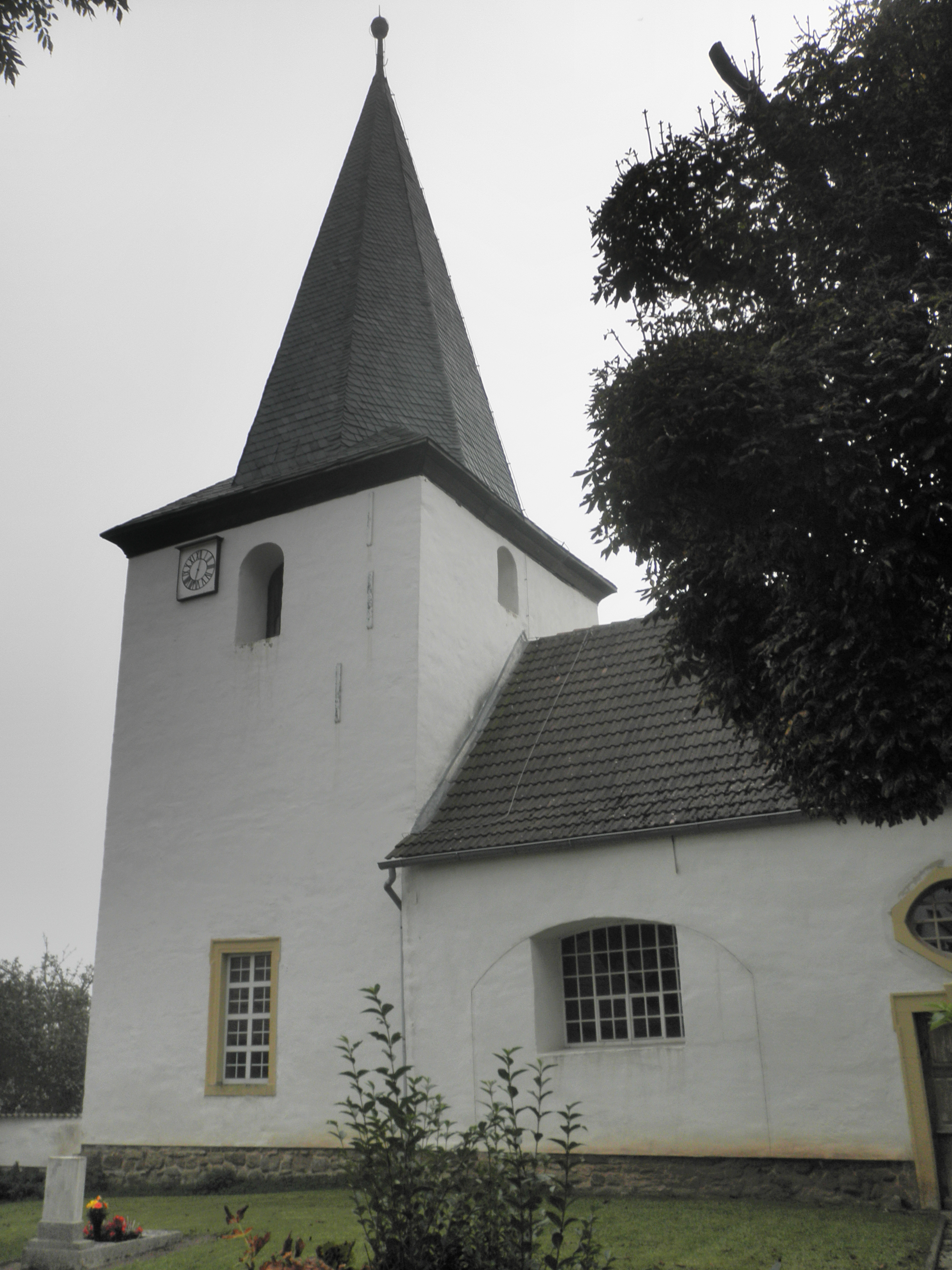 Church in Harras (Oberheldrungen) in Thuringia